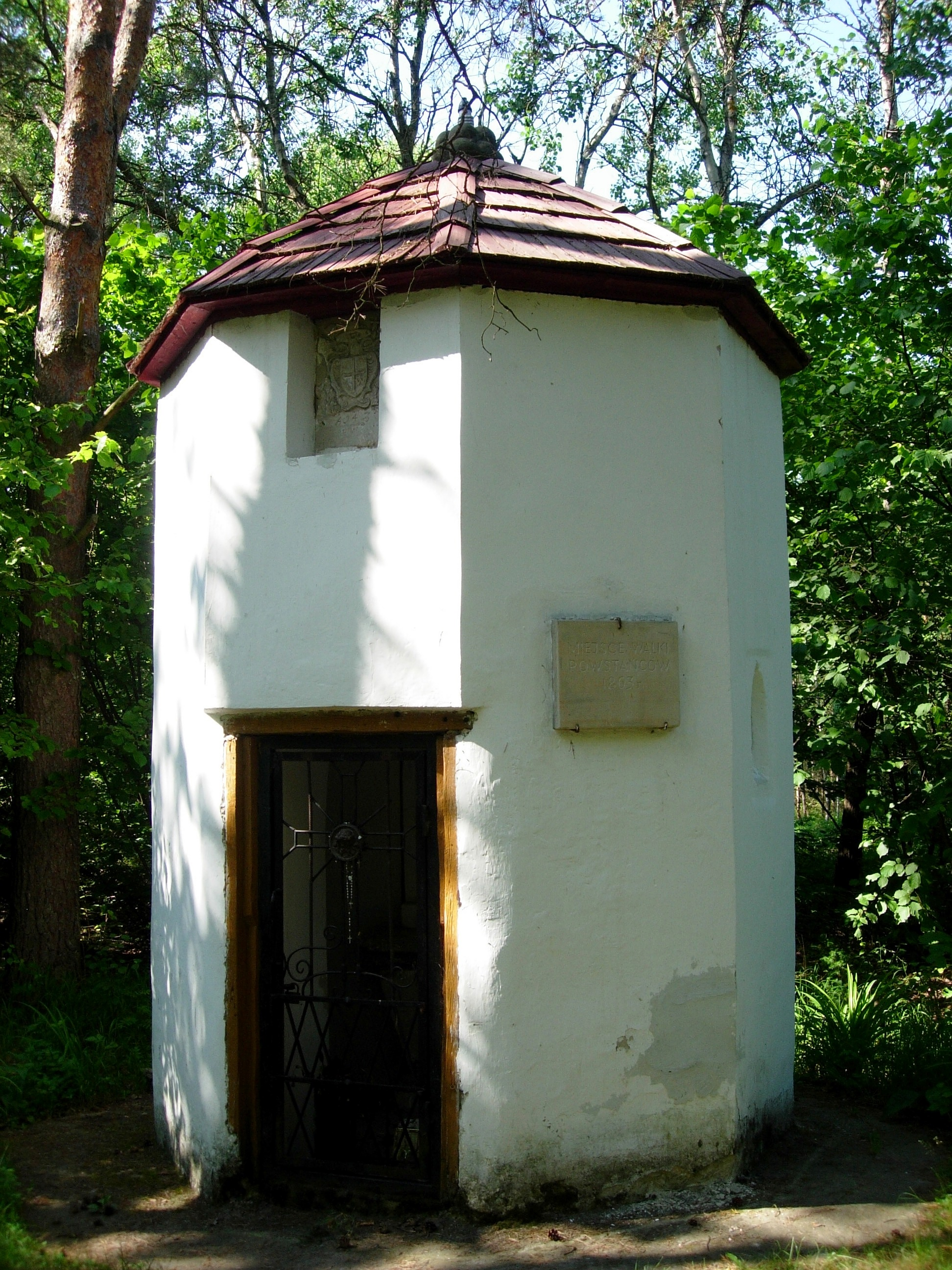 Saint Katherine Chapel (built in 1430) near Kunów in Poland